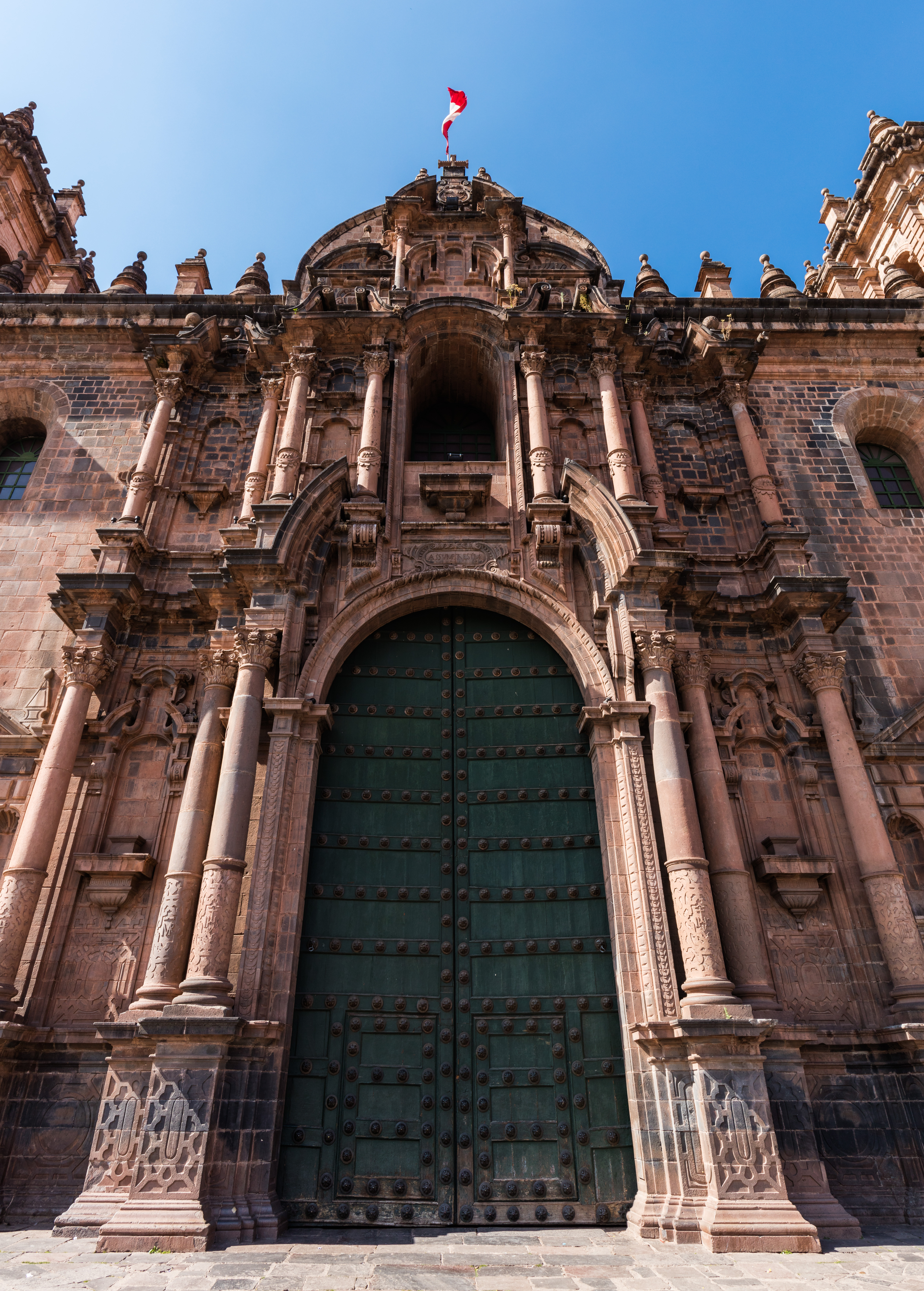 Cathedral, Plaza de Armas, Cusco, Peru